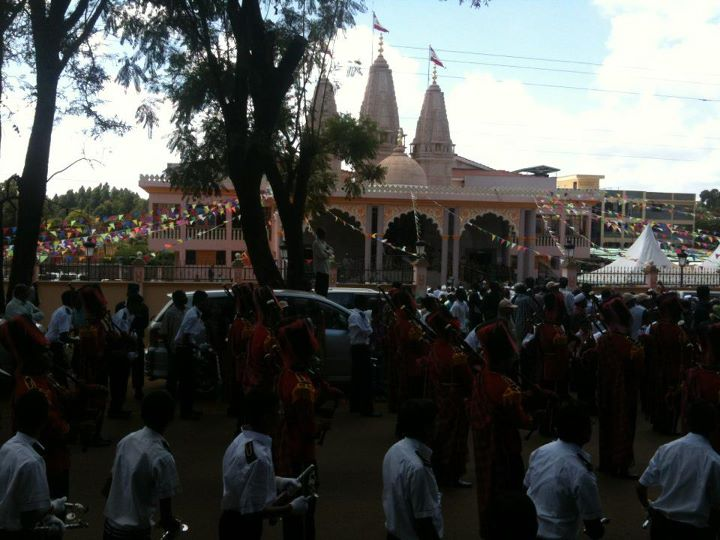 Swaminarayan Temple Eldoret - Kenya. Under NND Bhuj